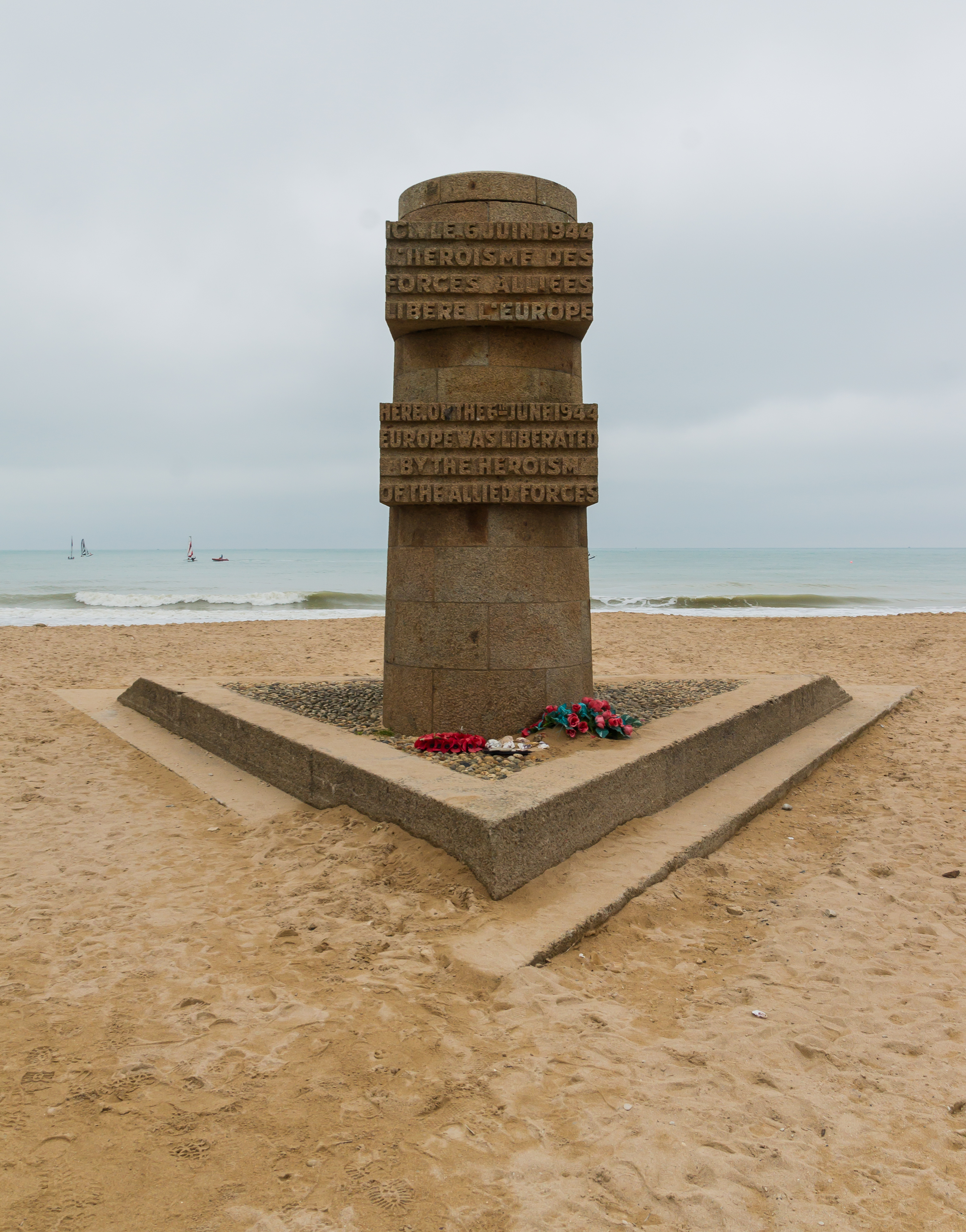 Juno Beach monument, Graye-sur-Mer, Calvados, Normandy, France